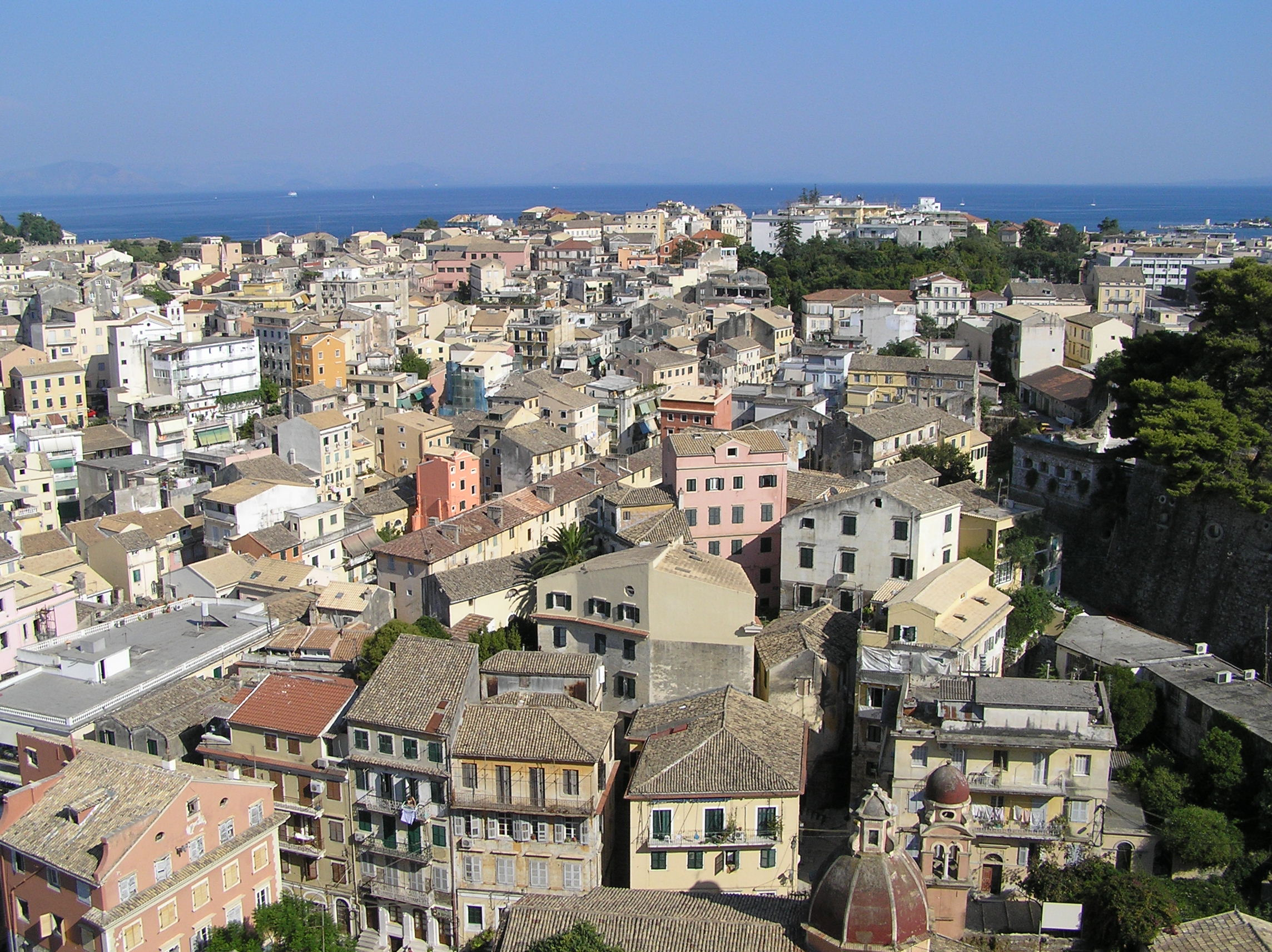 A view of Corfu Town (City) from the New Fort, looking south.